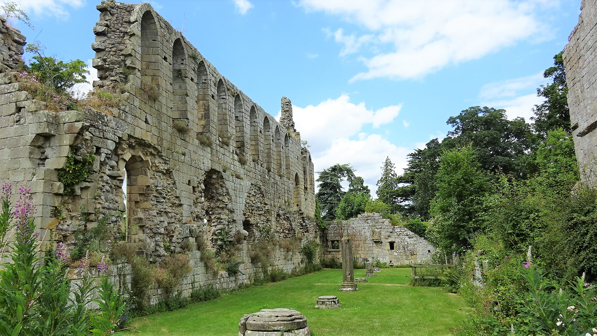 Monk's dormitory and lancet windows, Jervaulx Abbey, Wensleydale, Yorkshire, England.